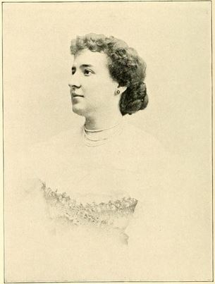 Ella Bercaw